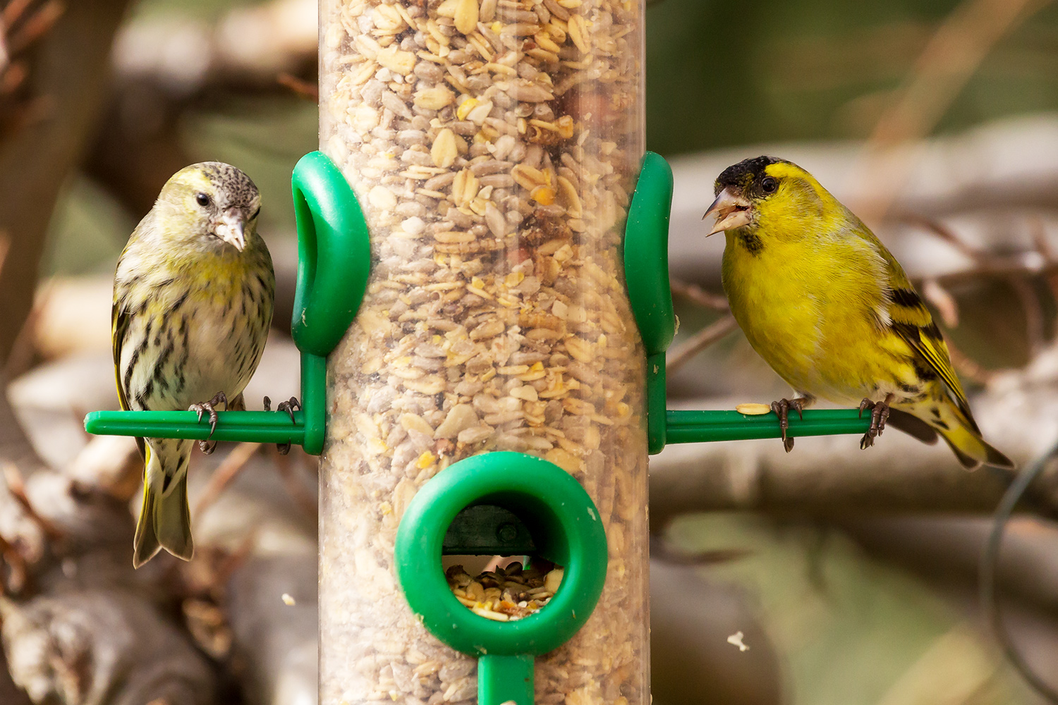 A pair of siskins at the bird feeder. On the left: female, on the right: male.